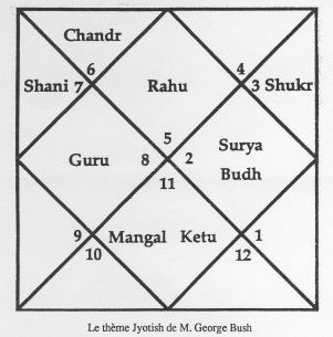 Jyotish Chart / carte astrologique Jyotish (astrologie indienne)